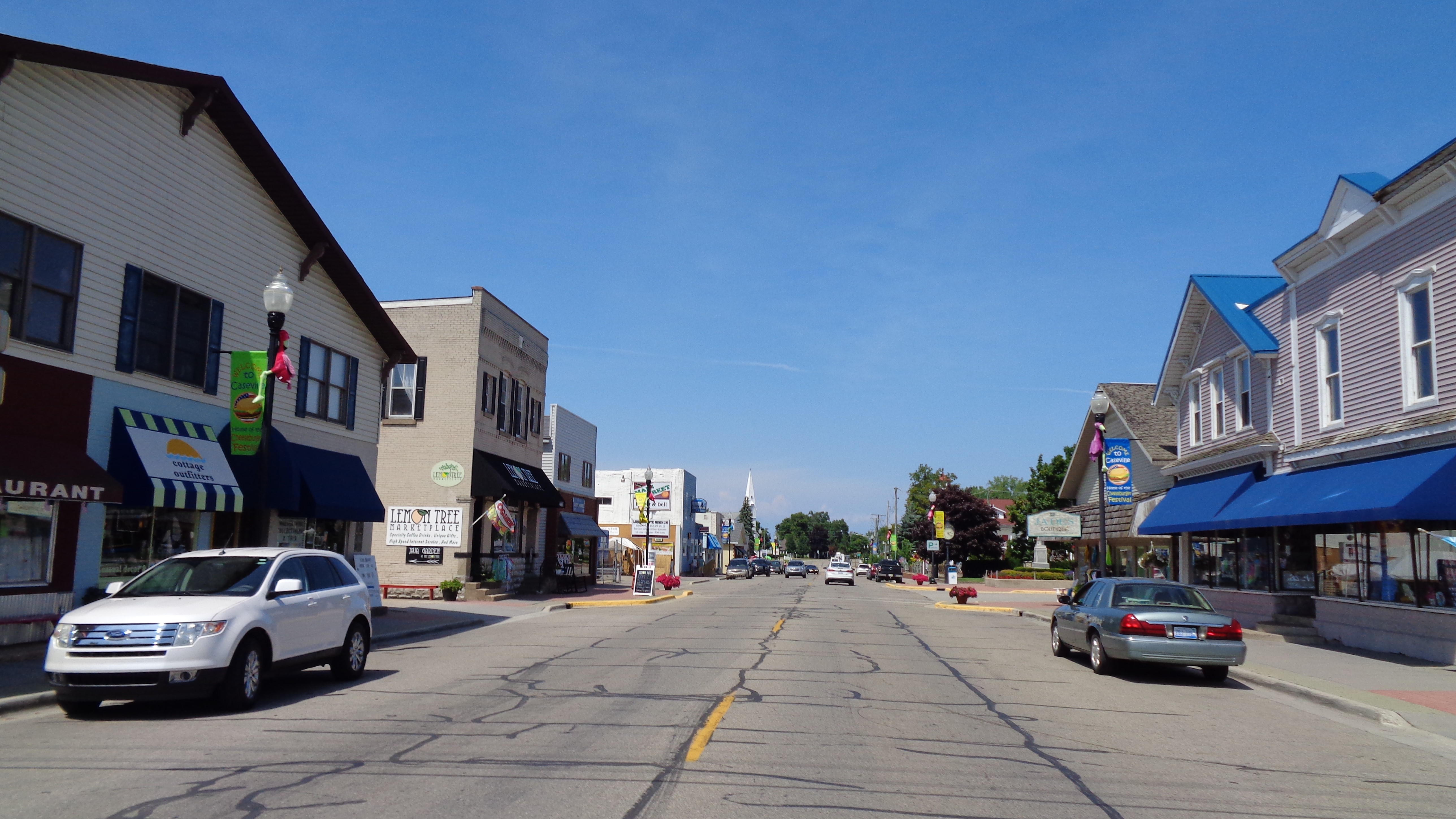 Depicted place: Caseville